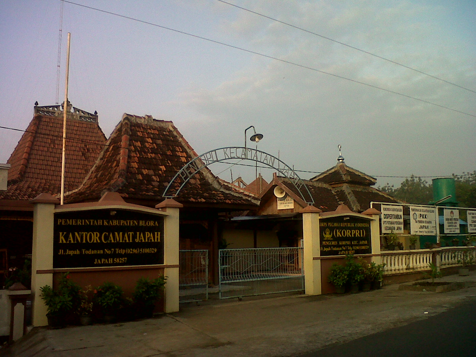 Kecamatan Japah